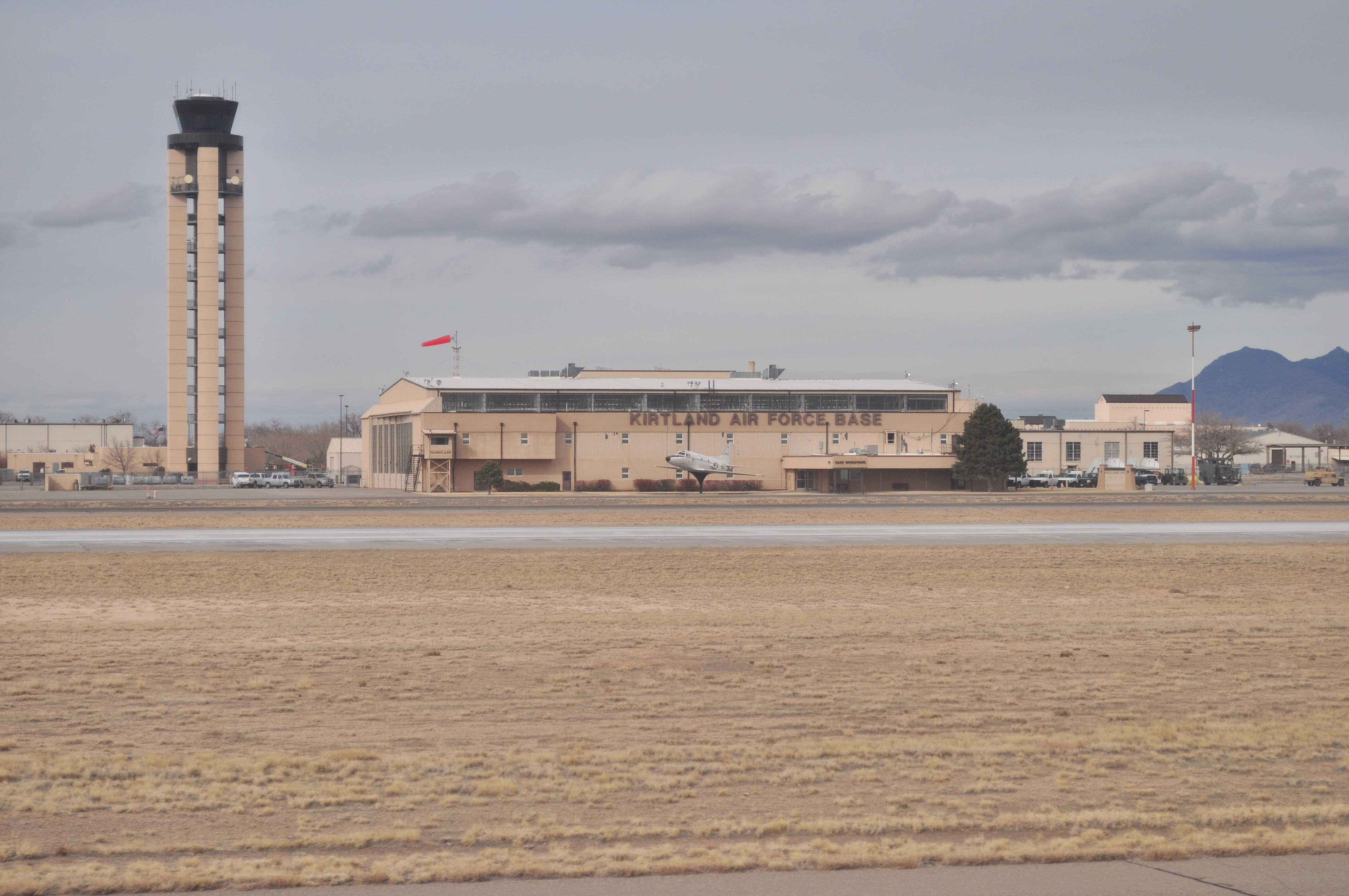 Kirtland Air Force Base, Albuquerque, New Mexico, U.S.